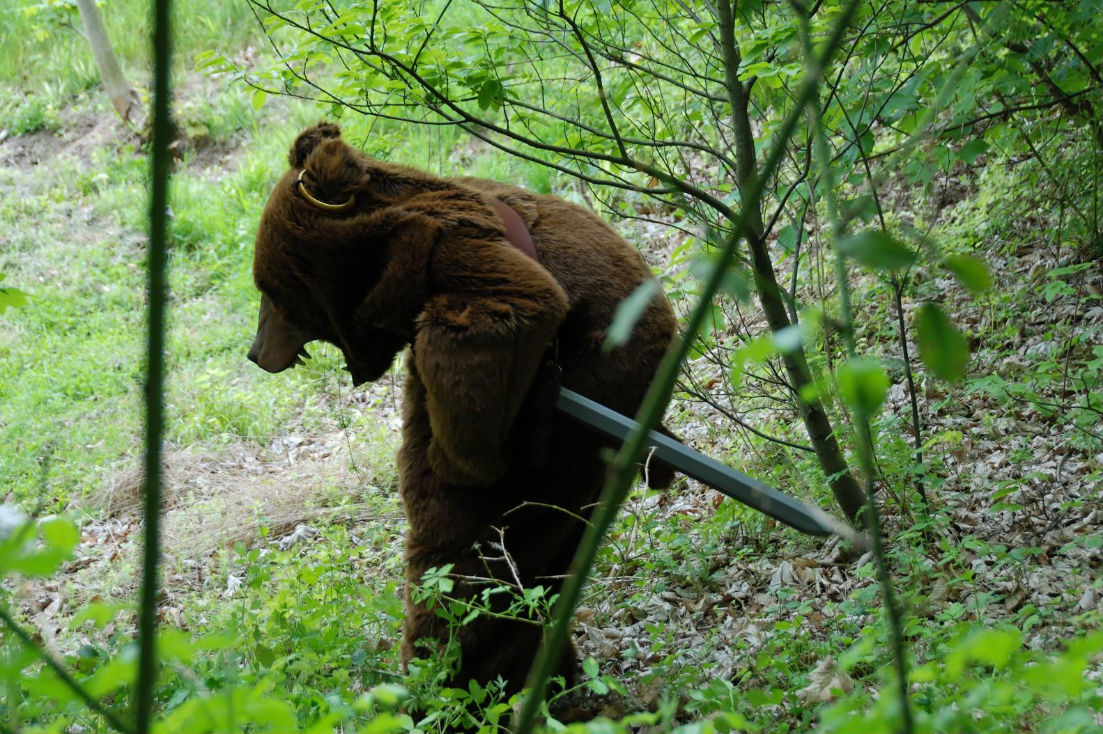 Titash, in his fursuit Ursus at Marly-le-Roi, France.